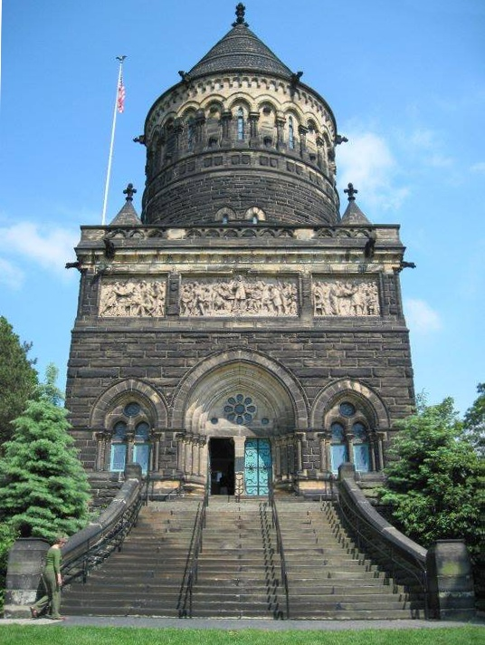 Garfield Memorial